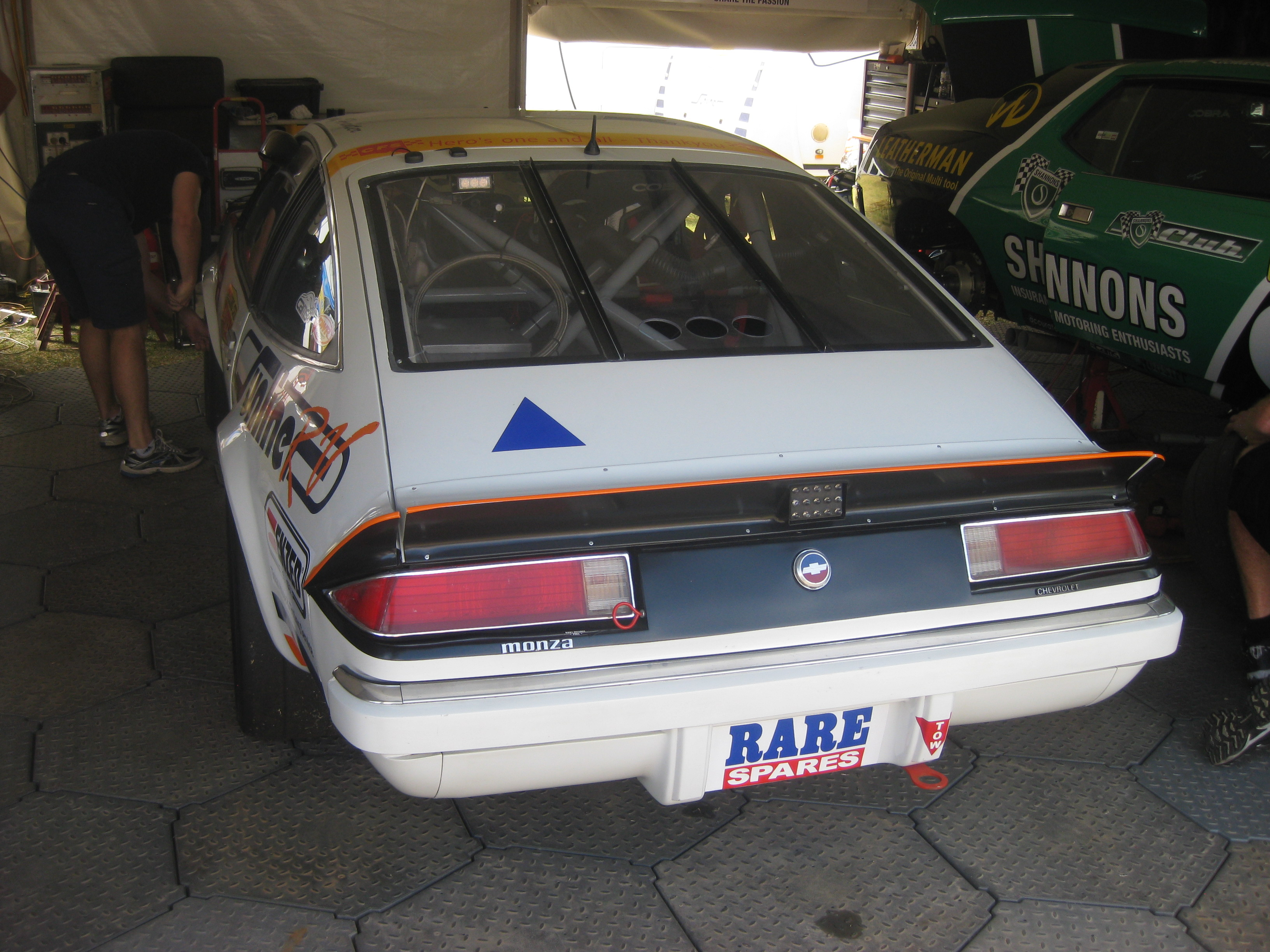 The Chevrolet Monza 2+2 of Tony Hunter at the Adelaide round of the 2015 Touring Car Masters